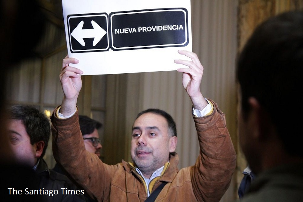 The street will now revert to its former name, Nueva Providencia. Photo by Charlotte Sexauer / The Santiago Times